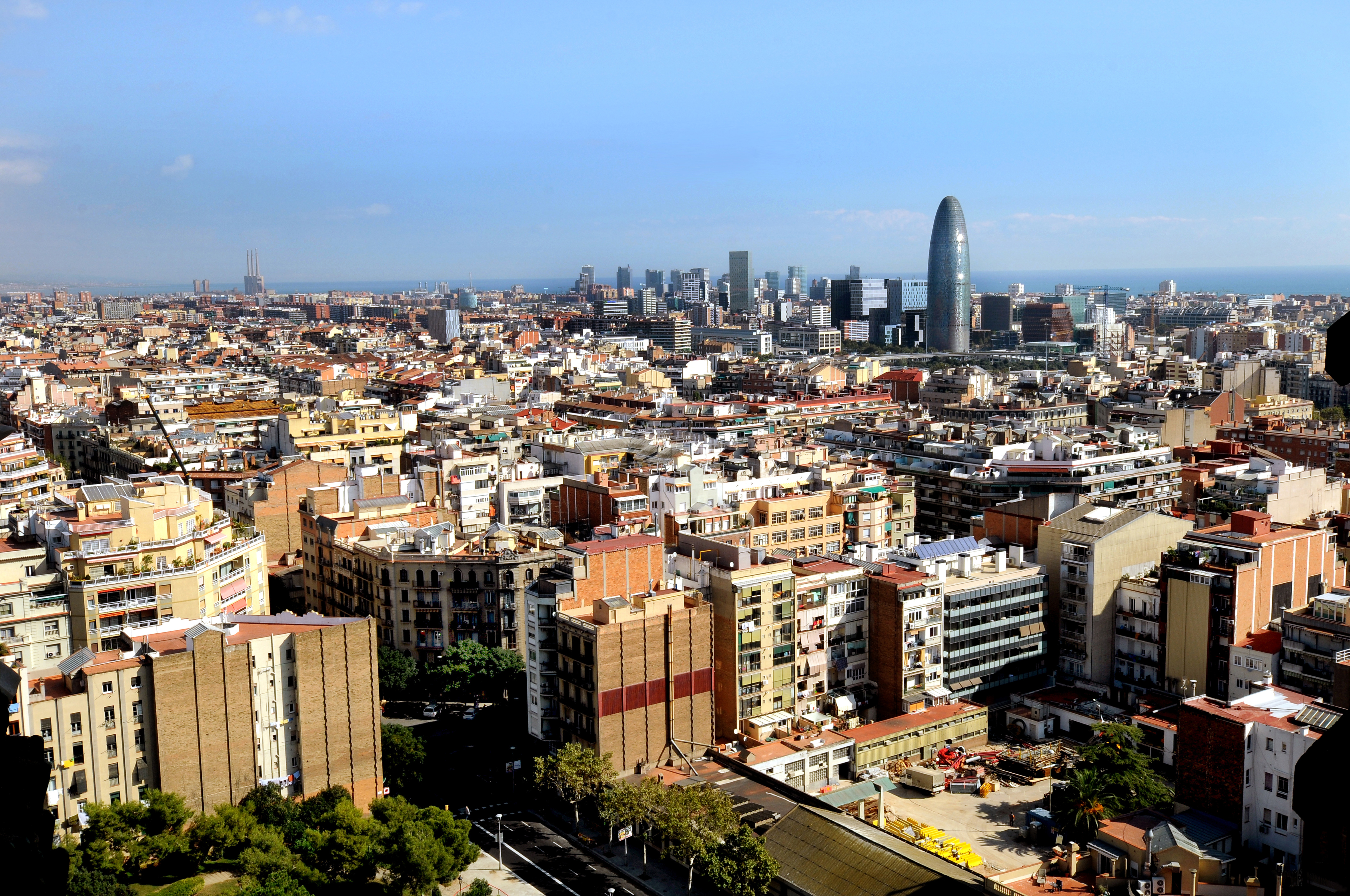 Barcelona, Spain, view over the city towards the coast with Torre Agbar, which is illuminate at night in the colours of the “F. C. Barcelona”